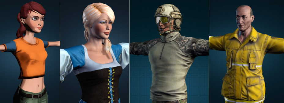 To show the range of 3D characters it is possible to make easily using the Fuse application by Mixamo.